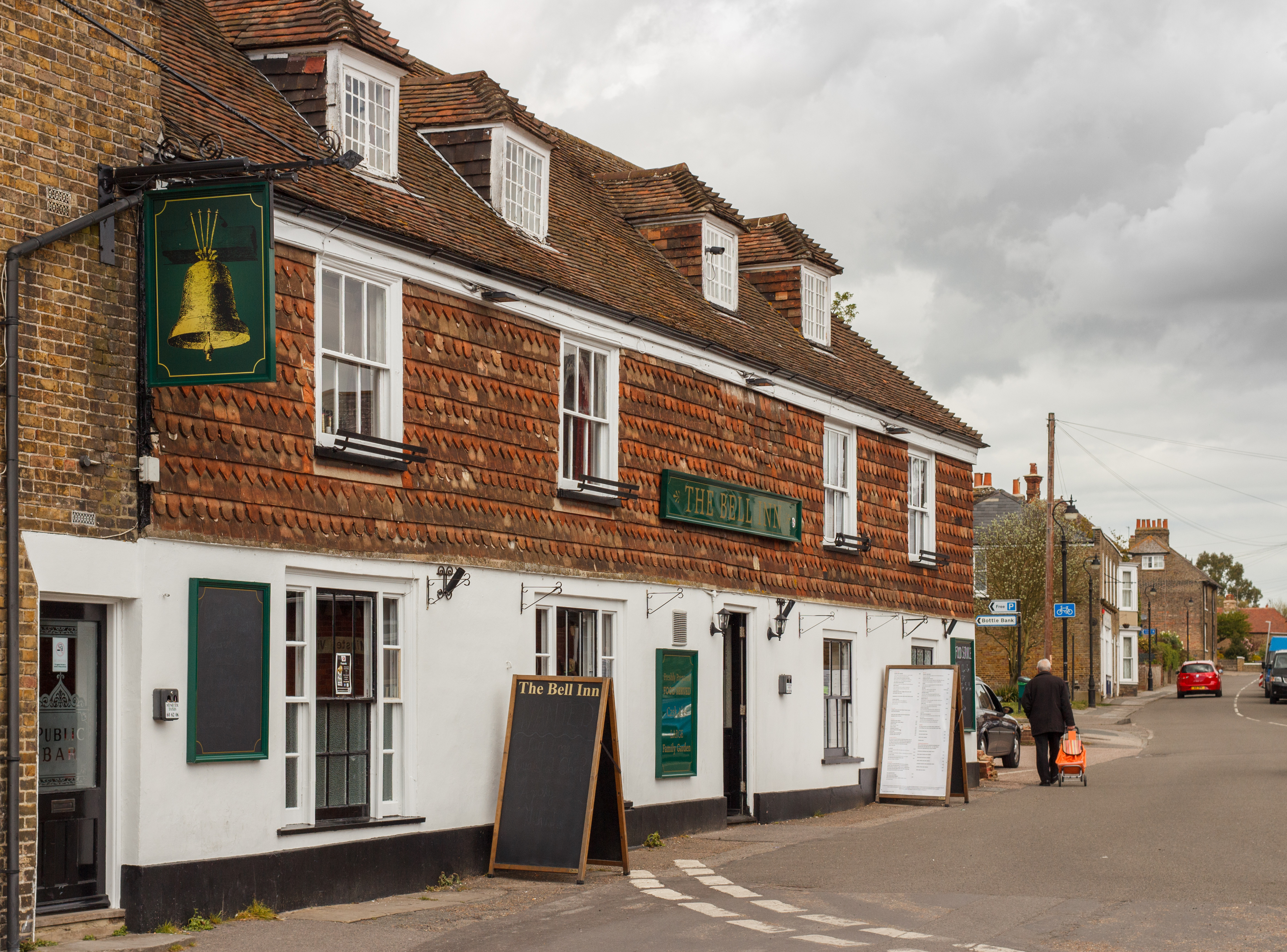 The Bell Inn, Minster-in-Thanet, Kent, England